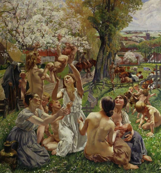 De morgen